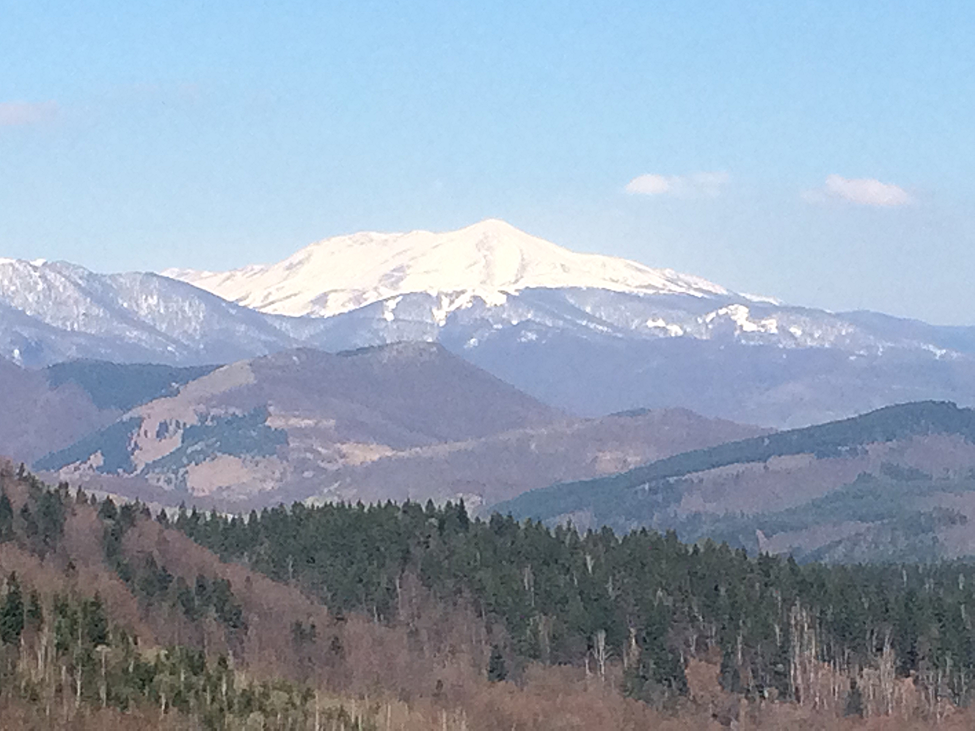 The mountain of Bjelasnica in Bosnia-Herceovina, seen from afar in Trnovo